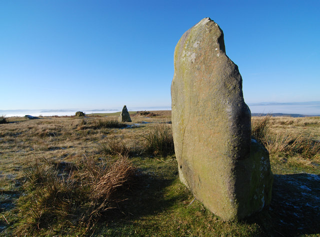 The west side of Mitchell's Fold